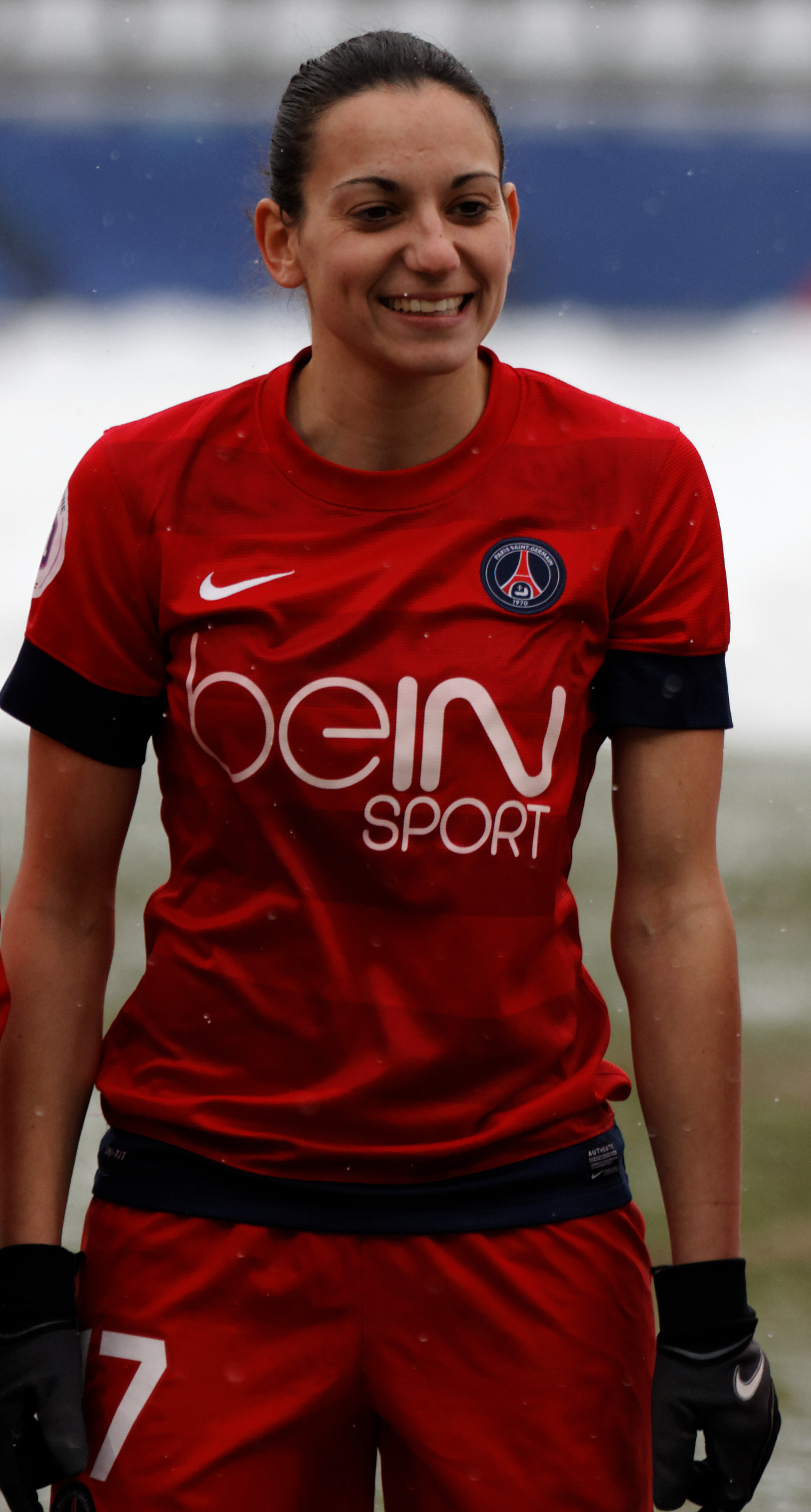 PSG-Toulouse, January 20th, 2013.